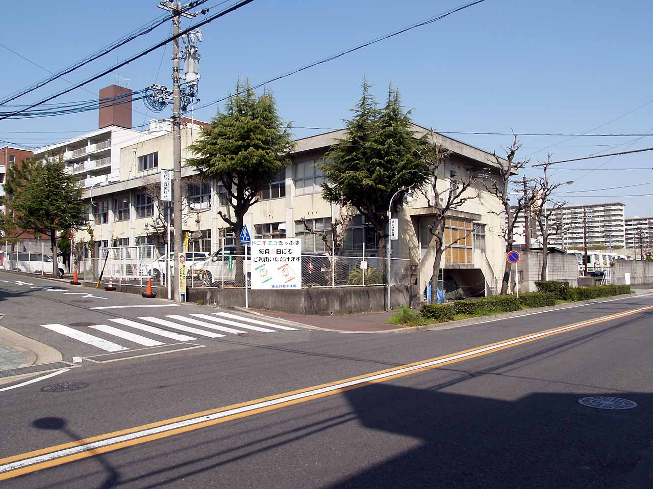 Nagoya City Bus Idaka Depot